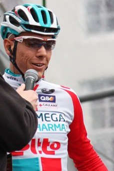 Philippe Gilbert at the start of the 2011 Tour of Flanders in Brugge 3. April.